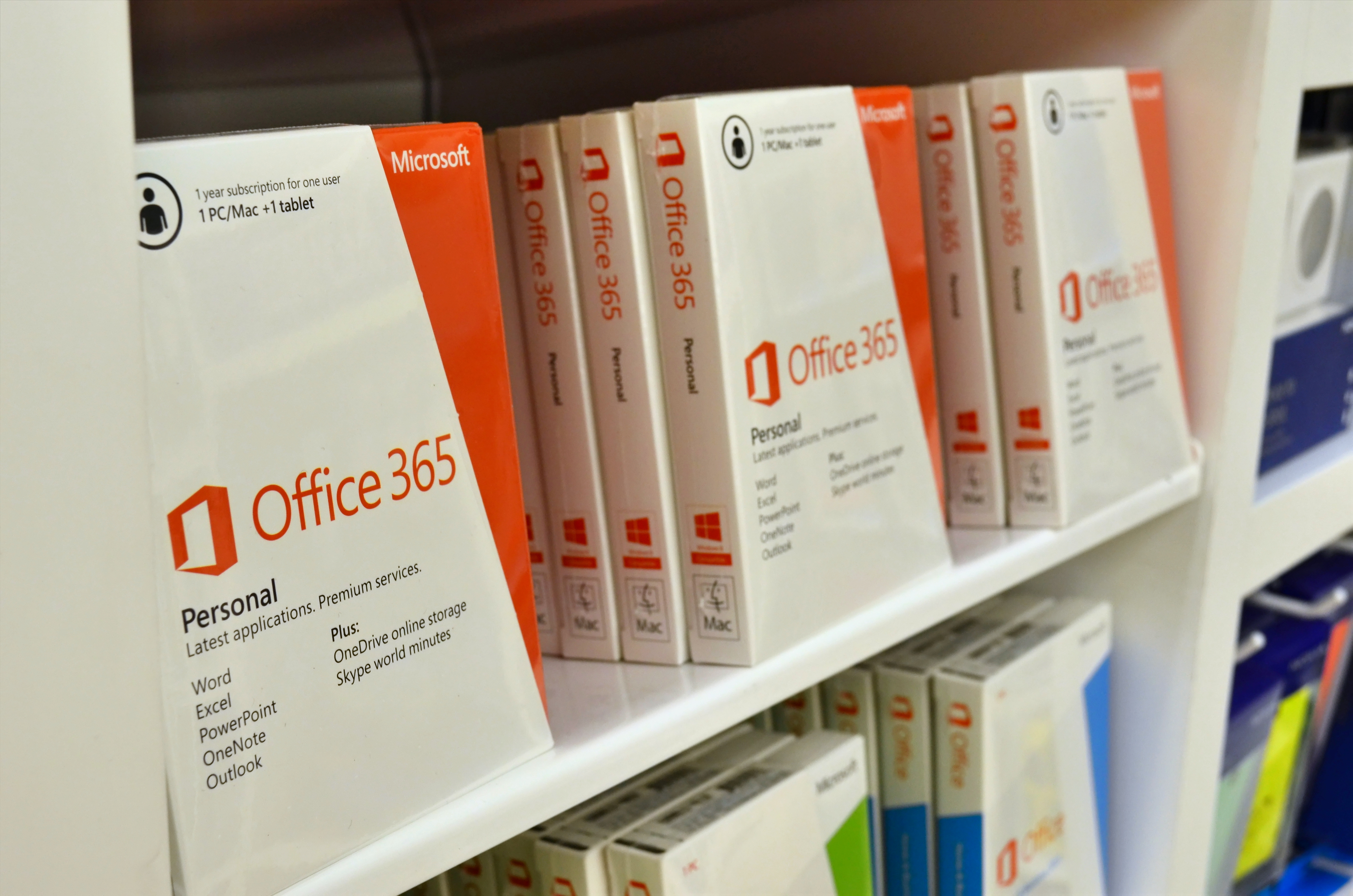 Office 365 retail pack at Microsoft Store